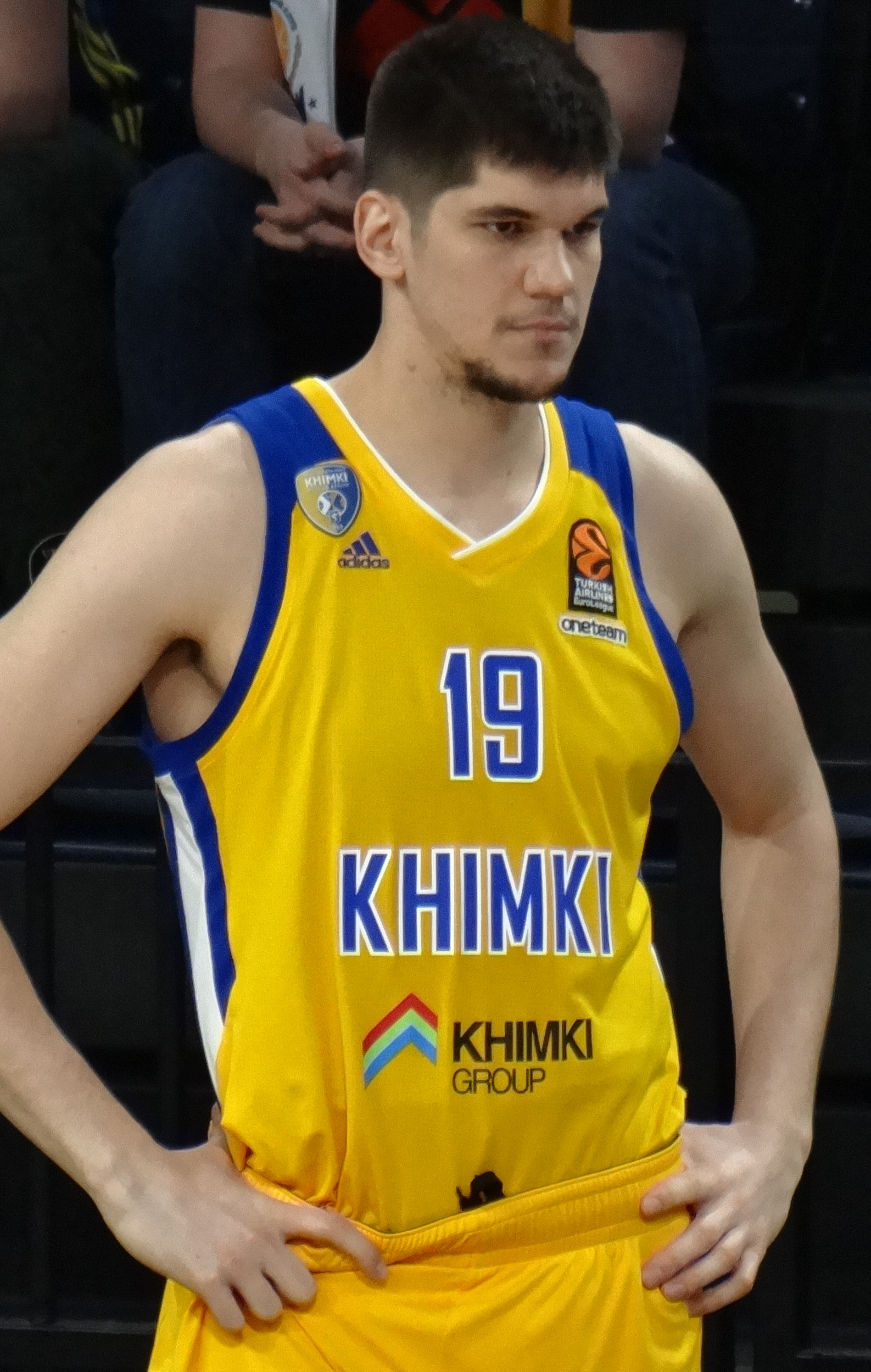 Marko Todorović (basketball) 19 BC Khimki EuroLeague 20180321